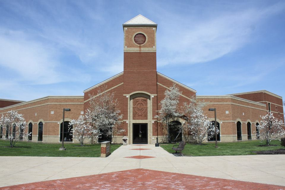 Photo of the St. Joseph's College Core Building, one of the buildings where classes are held